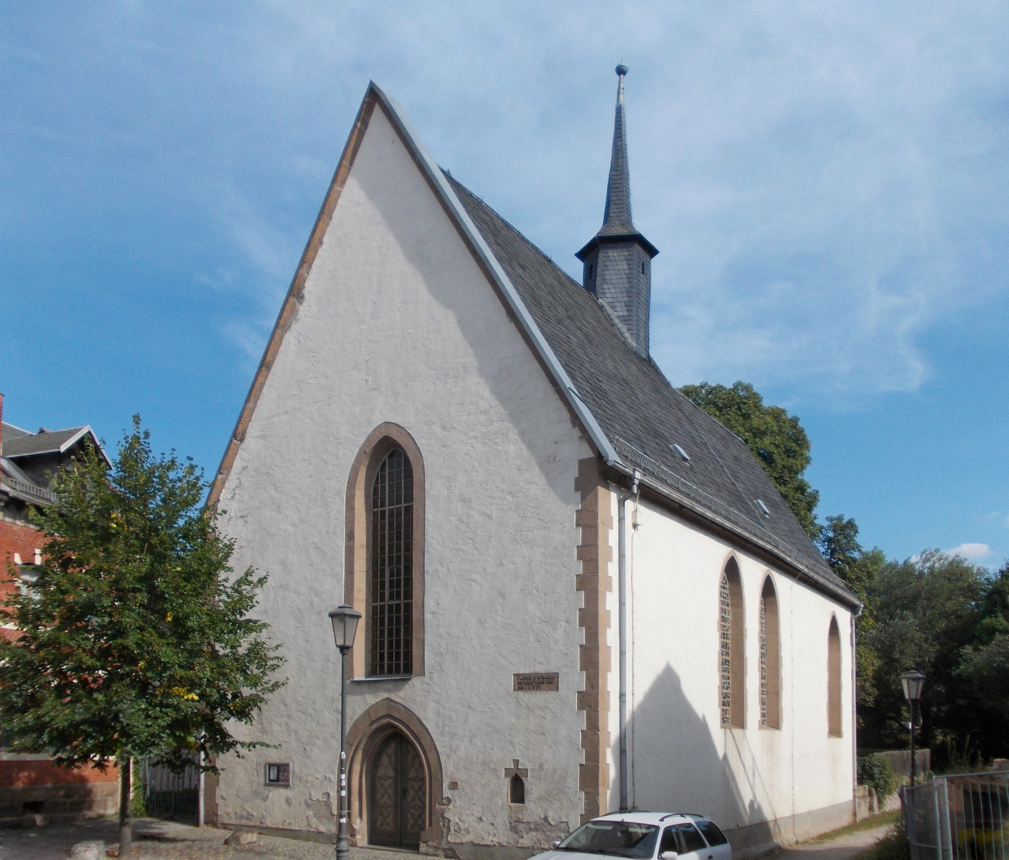 St. Nicholas' Church in Kahla (district: Saale-Holzland-Kreis, Thuringia)